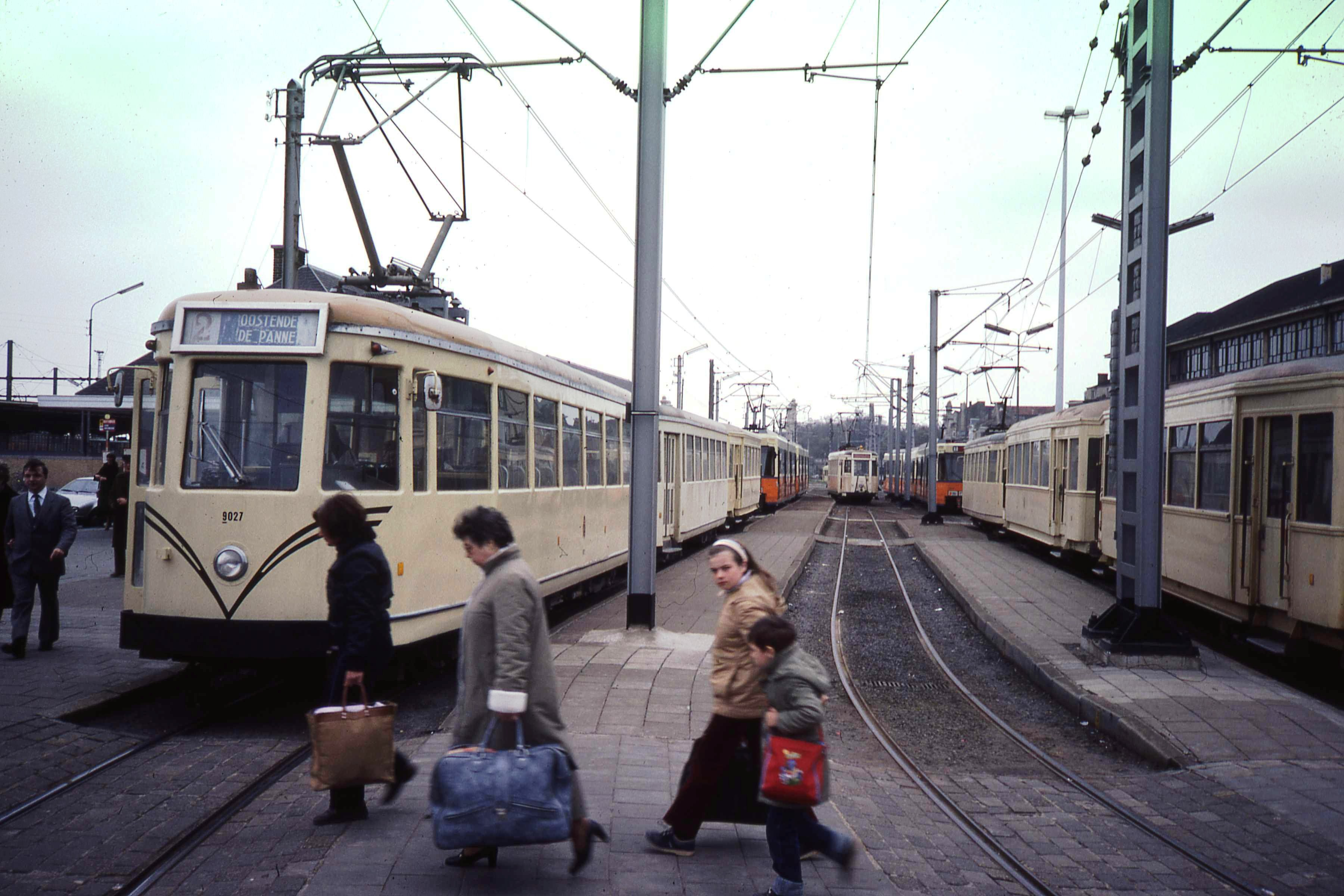 Two NMVB tram (Type S-Oostende) with two trailers, awaiting departure in opposite directions. In the background the newer trams and another Type S tram. Picture taken in the summer of 1982. Shortly thereafter all Type-S trams disappeared. In the summer and during busy periods the trams had at least two trailers sometimes even three. The motortram only runs in one direction and has only doors on the right side and only one driving post. Typical are the "Wiskers" frontlines for this type. Motorcar 9027